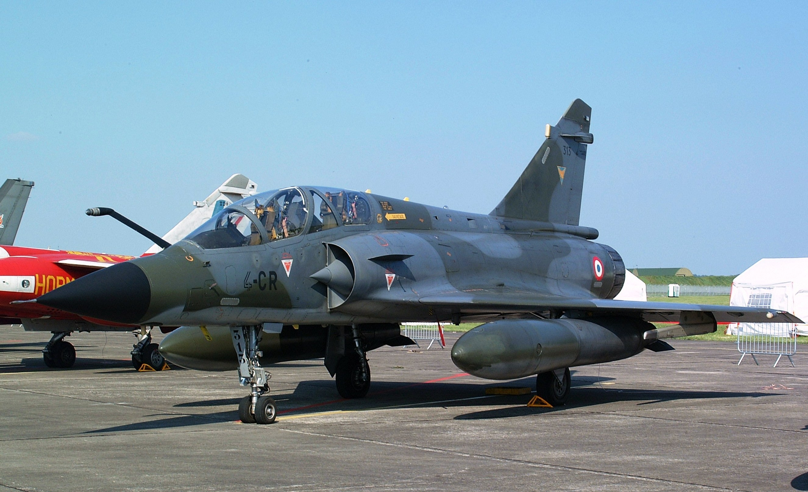 313/4-CR an AMD Mirage 2000N Nuclear Bomber of the French Air Force's EC.03.004 'LIMOUSIN' based at BA116 Istres-Le Tubé